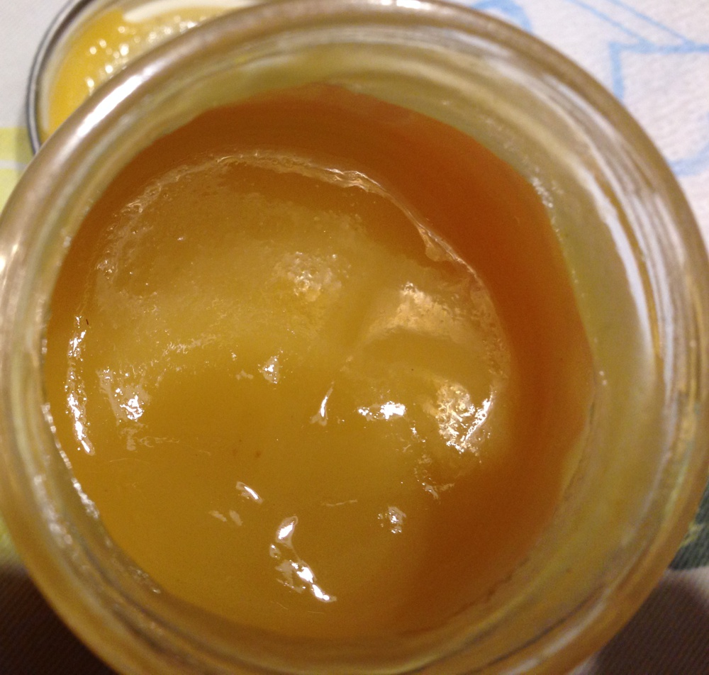 Baby food (homogenized fruit)